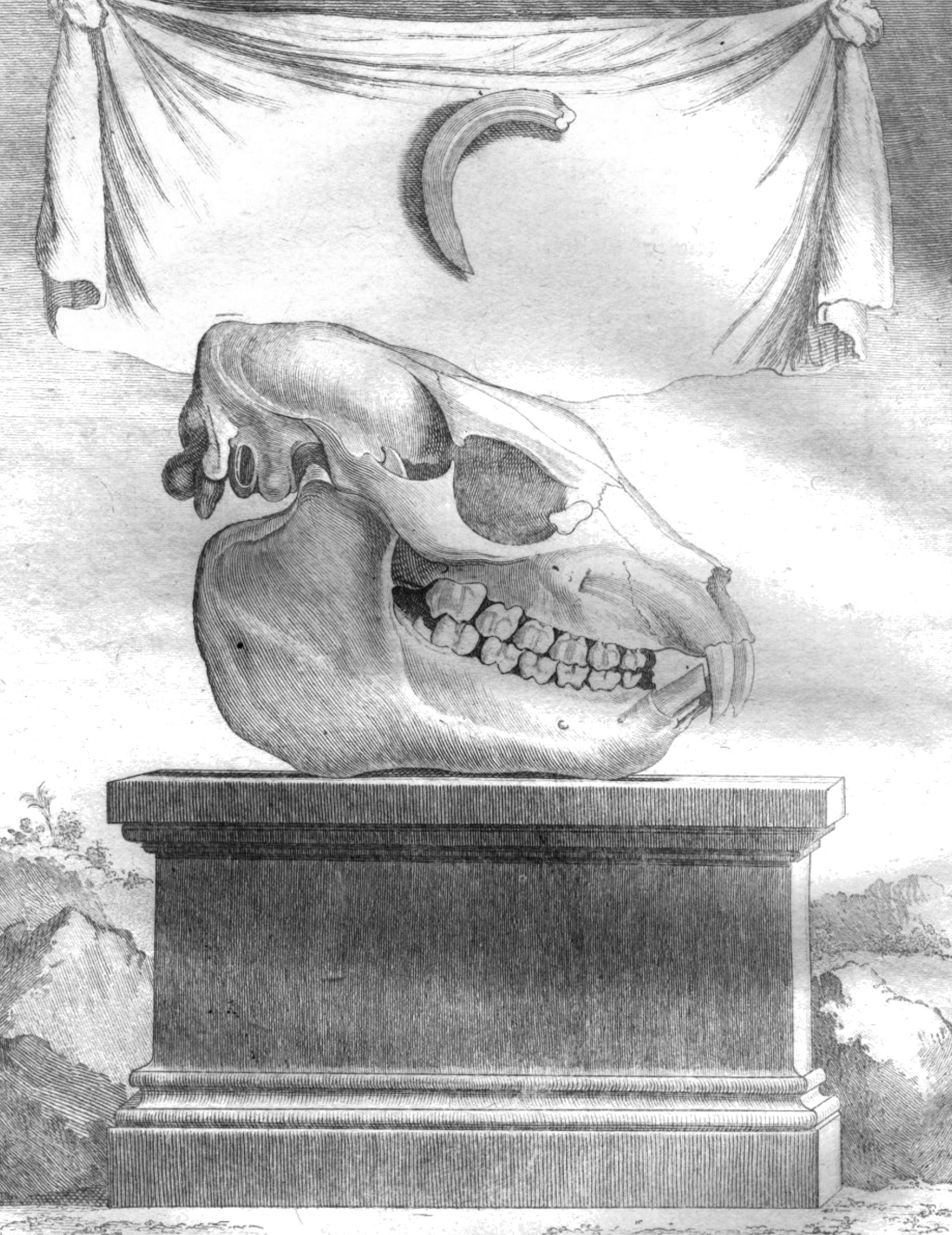 Skull of Procavia capensis (MNHN-ZM-AC-A.2339), in the Histoire naturelle, générale et particulière. Supplément, Tome Septième., edited by Buffon in 1789, defined as "Loris de Bengale" (Bengal slow loris (Nycticebus bengalensis))